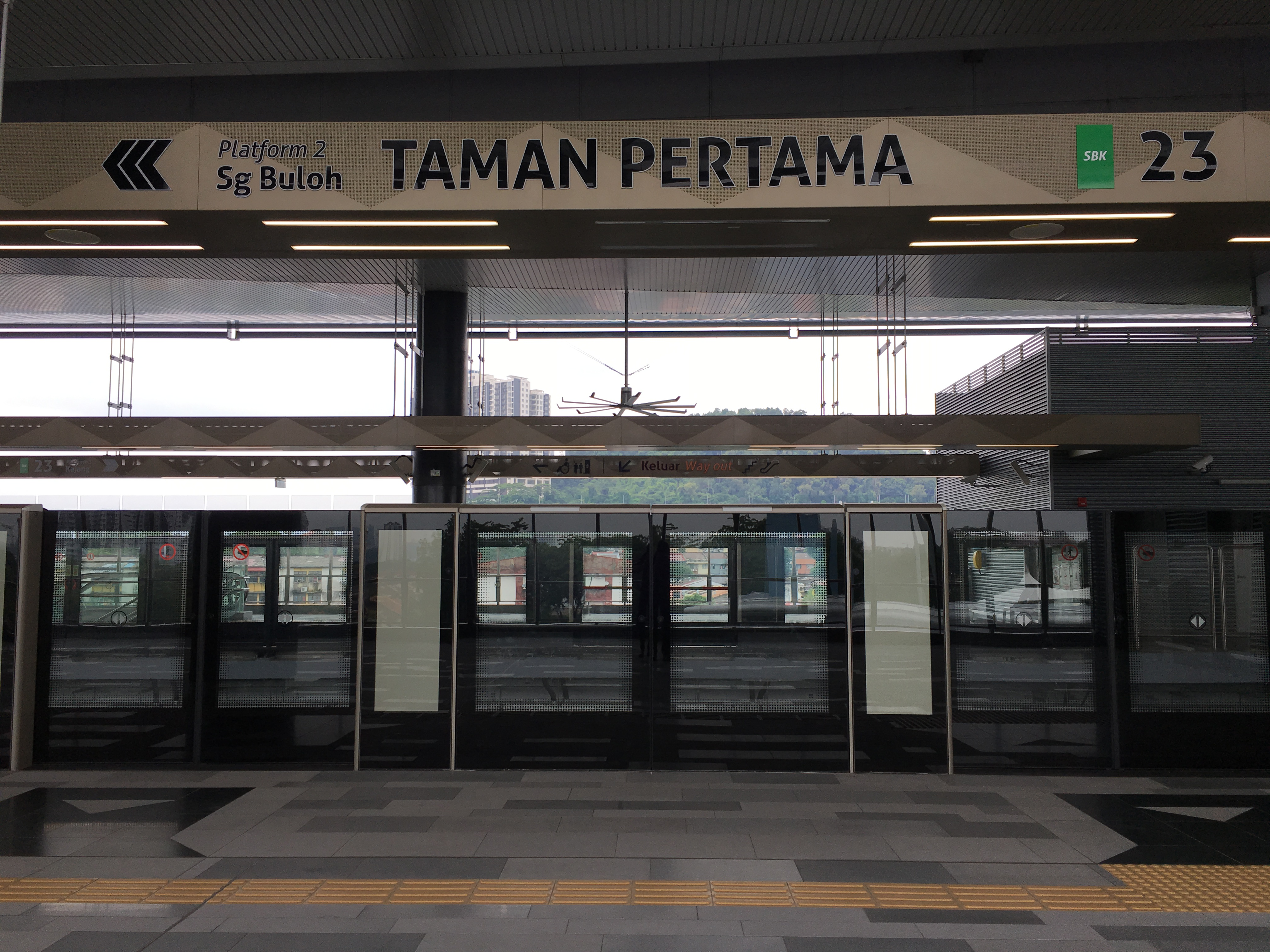 Platform 2 of the Taman Pertama MRT Station.